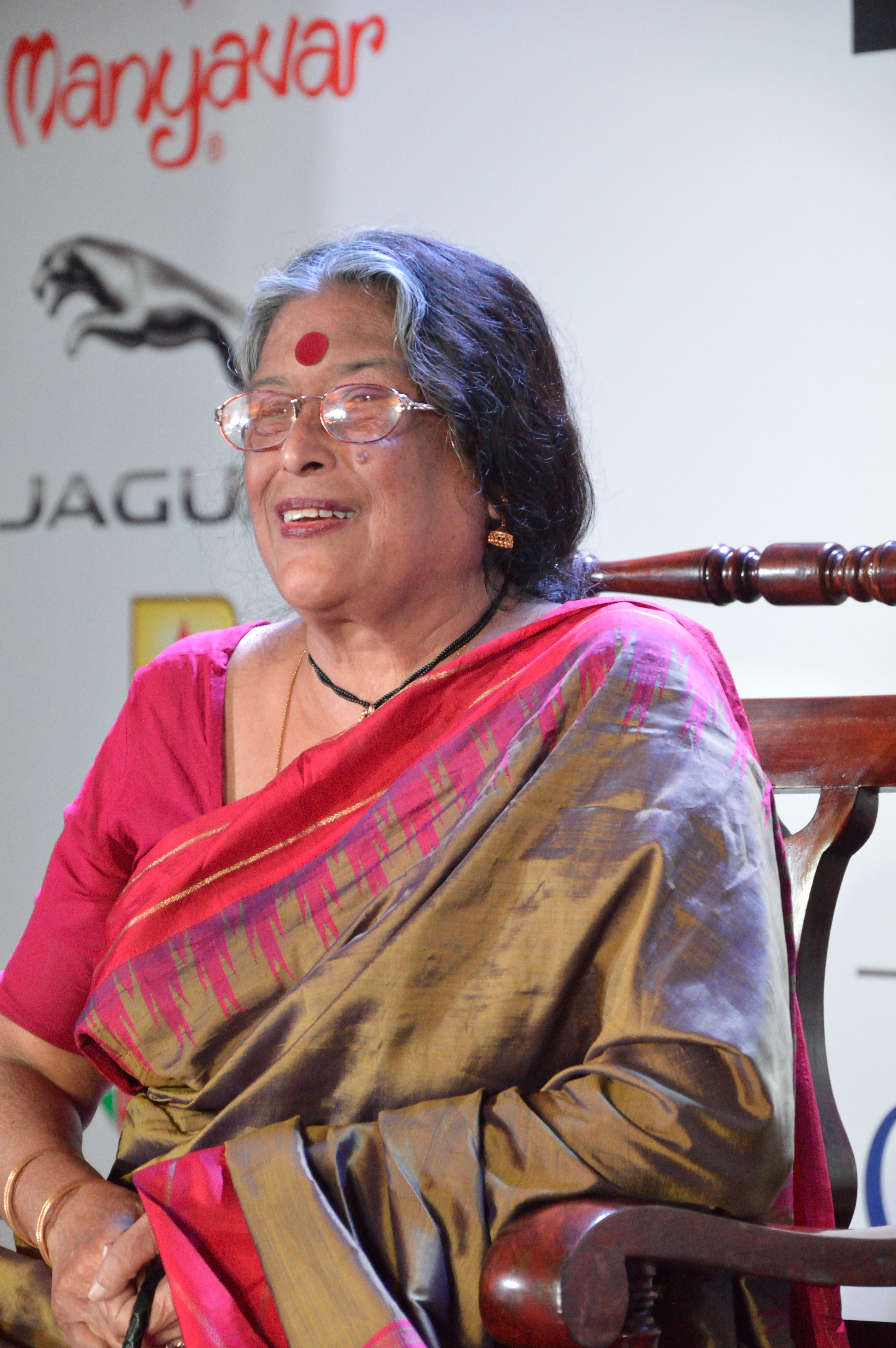 Nabaneeta Deb Sen is one of the most versatile female Bengali writers in India today. She has published more than 80 books in Bengali, which include novels, short stories, plays, literary criticism, personal essays, travelogues, humour writing, translations and children’s literature. Her first collection of poems, Pratham Pratyay, was published in 1959. Ami Anupam, her first novel, was published in 1976. Some of her other well-known works are Bama-bodhini, Nati Nabanita, Srestha Kabita and Sita Theke Suru. She is widely respected in the academia as well, and has a Masters degree from Harvard University and a PhD from Indiana University. She has received many awards including the Celli Award from the Rockefeller Foundation and the Sahitya Akademi Award. Deb Sen lives in Kolkata and has three daughters, two with former husband Amartya Sen. This shot was taken during the annual 'Kolkata Literary Meet 2013' was a part of the 'International Kolkata Book Fair 2013' held at the Milan Mela ground. It is a five day talk and interaction with general public of renowned persons from India and abroad.